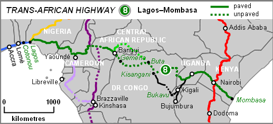 This shows that there is a paved road from West Africa to the borders of Central African Republic, and southwards from Yaounde to south Gabon.